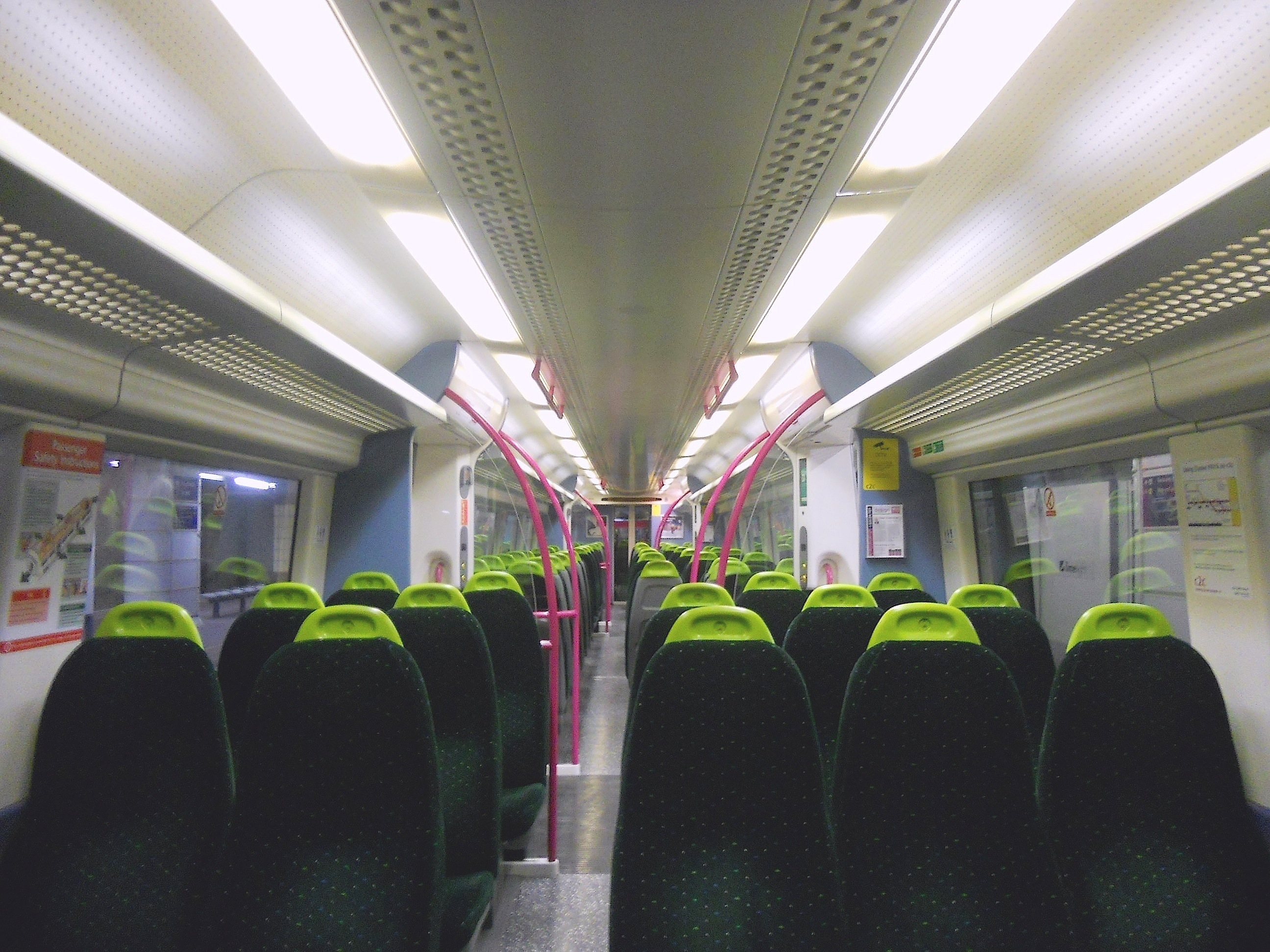 The interior of a c2c Class 357/2